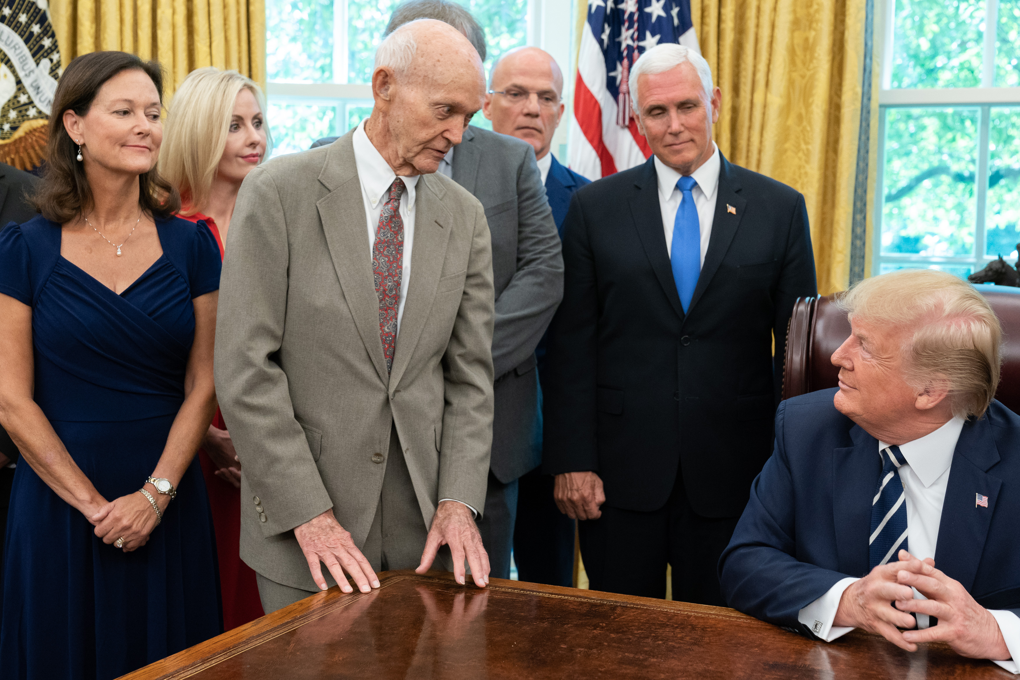 President Donald J. Trump, Vice President Mike Pence and NASA Administrator Jim Bridenstine welcome Apollo 11 astronauts Buzz Aldrin and Michael Collins, along with the family members of astronaut Neil Armstrong, Friday, July 19, 2019, to the Oval Office of the White House to commemorate the 50th anniversary of the Apollo 11 Moon Landing. (Official White House Photo by Shealah Craighead)